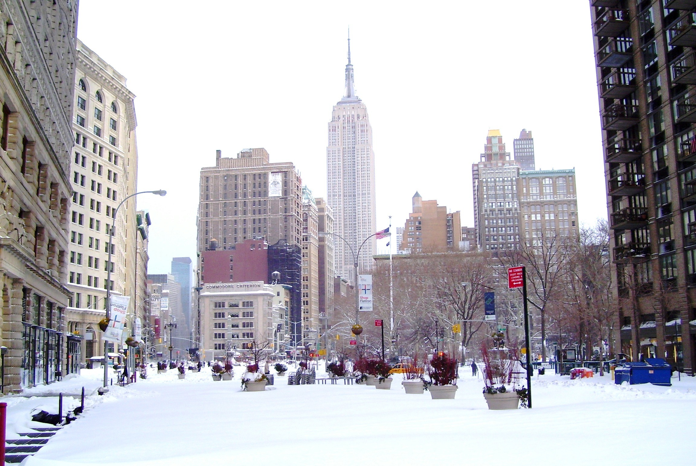 Madison Square after the blizzard of 26-27 December 2010, as seen from 22nd Street and Broadway in the Flatiron District of Manhattan, New York City. The Flatiron Building is on the left, and the Madison Green apartment building on the right. In the midground, Madison Square Park is in the right, with Madison Square itself on the left, and the Toy Center Building on the far left. In the background is the Empire State Building.